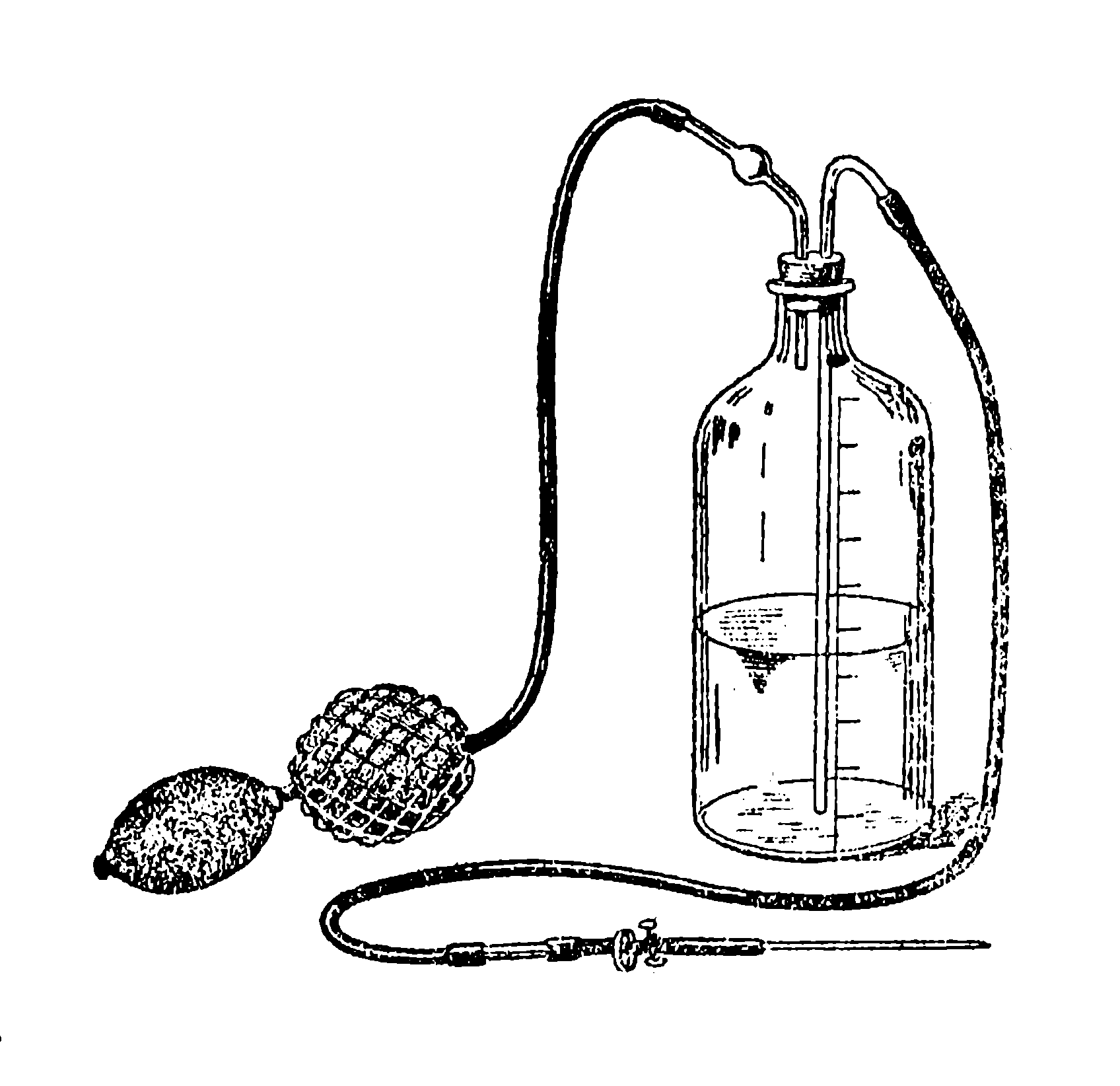 The Bobrov apparat for subcutaneous injection.